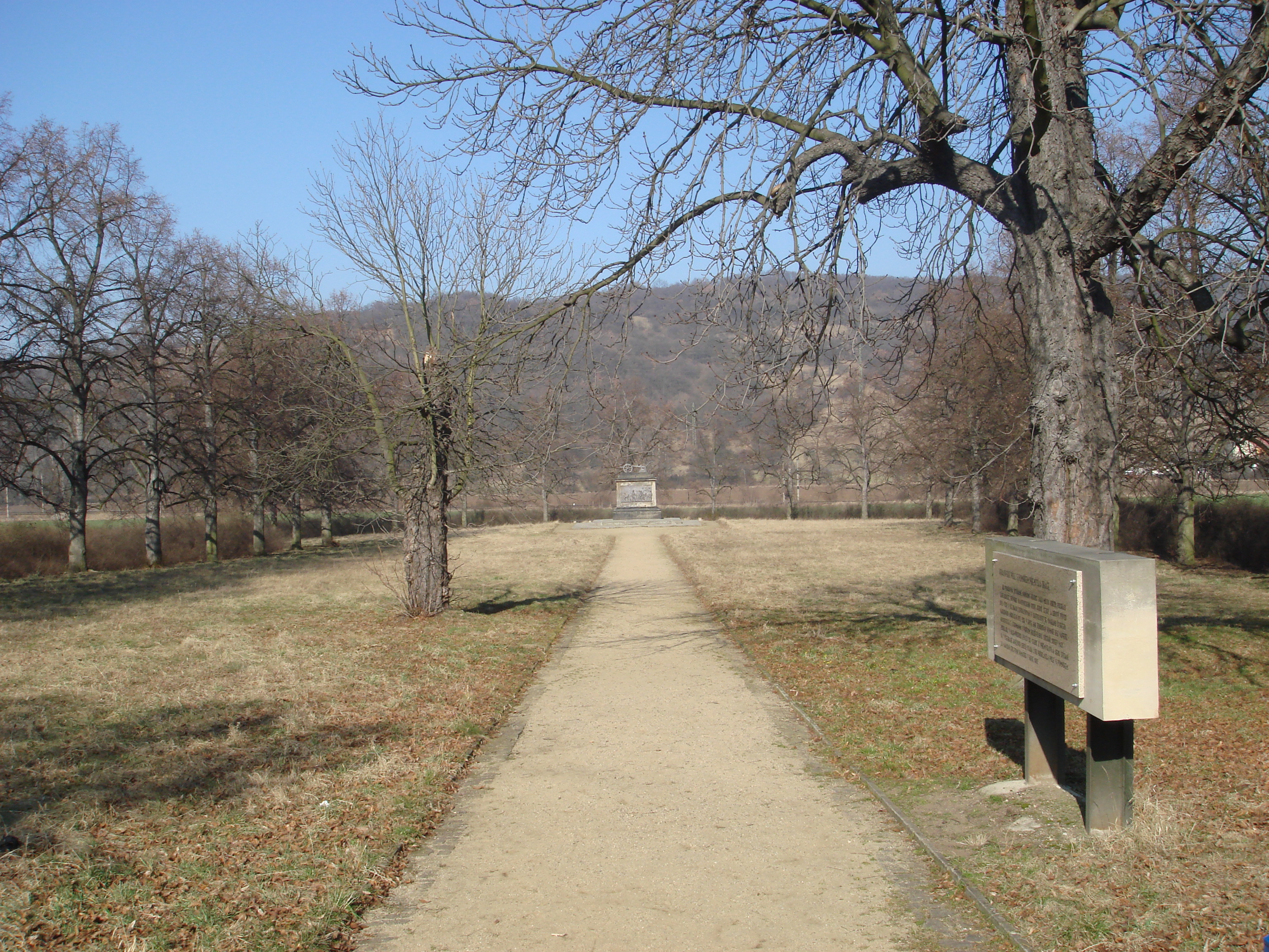 The Královské pole (Royal field) in Stadice (Ústí nad Labem Region, Czech Republic).